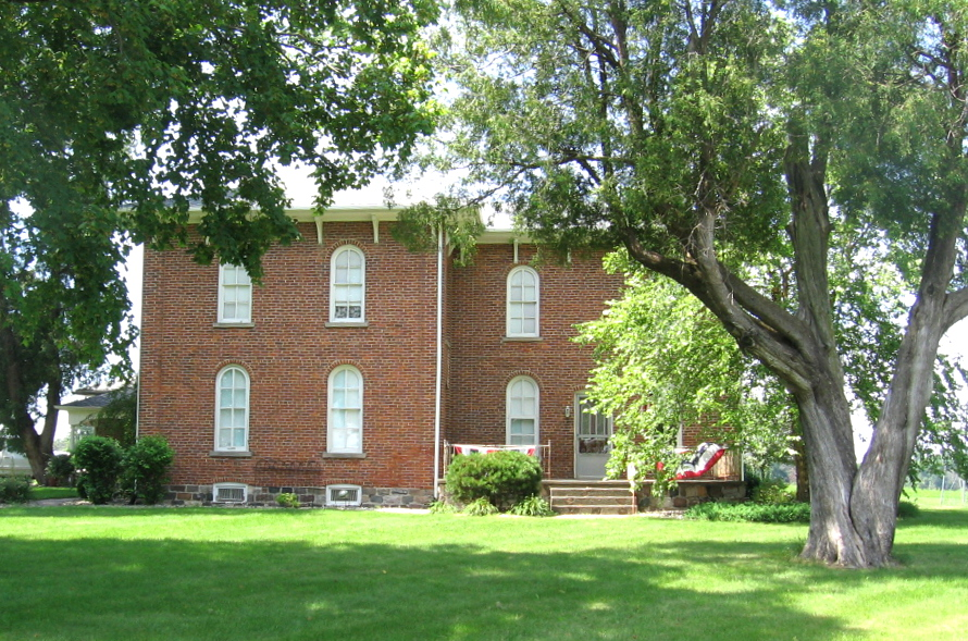 A brick house along the east side of 925E on the north side of Brushy Prairie, Indiana. A new wood addition (not shown) has been added to the original brick structure.